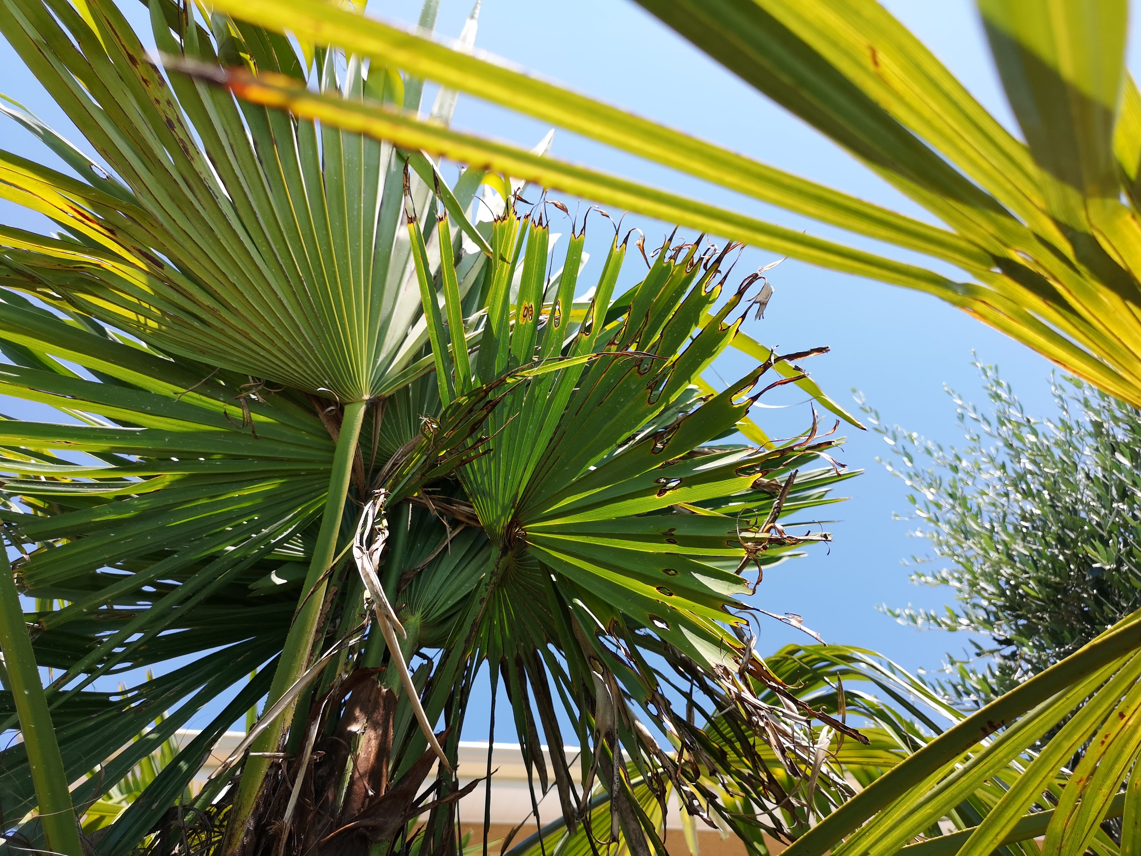 result of the havoc of the larvae of the "Papillon Sphinx" paysandisia archon on the palms